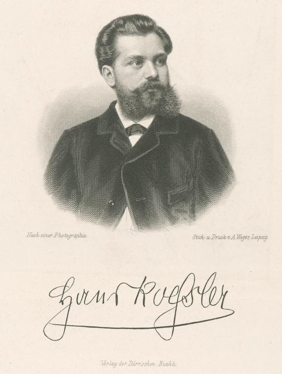 German and Hungarian composer and teacher Hans Koessler (1853—1926). August Weger's engraving after the photograph.